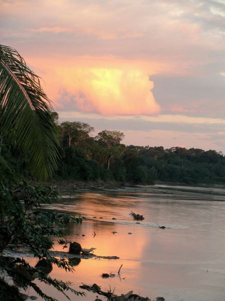 Tacuatimanu River